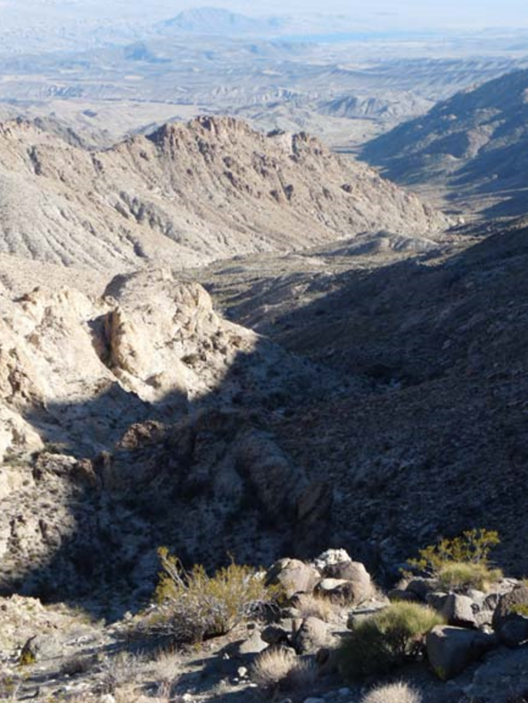 A photo of Ireteba Peaks Wilderness